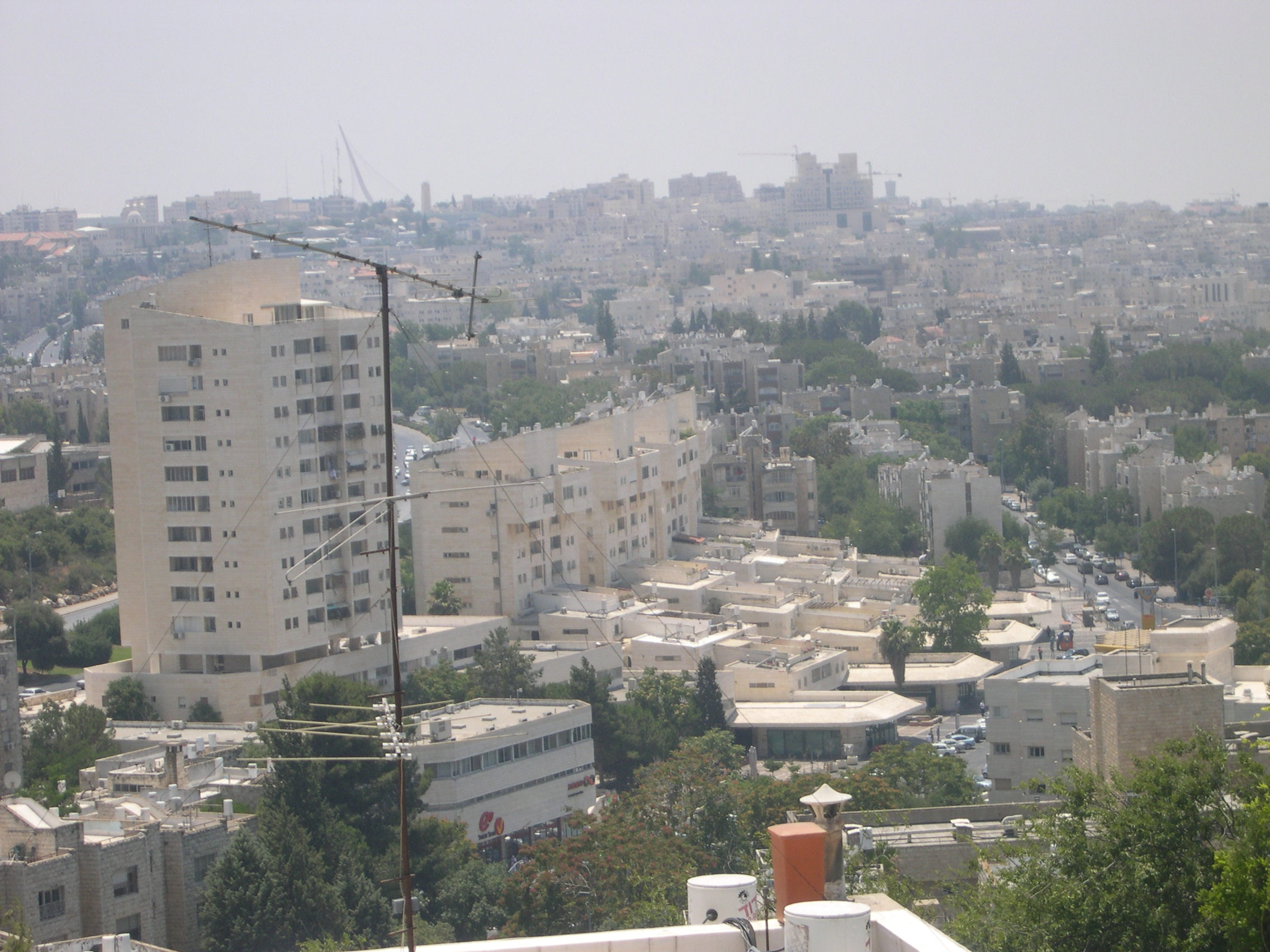 Paran Street, Jerusalem. View from Giv'at HaMivtar.